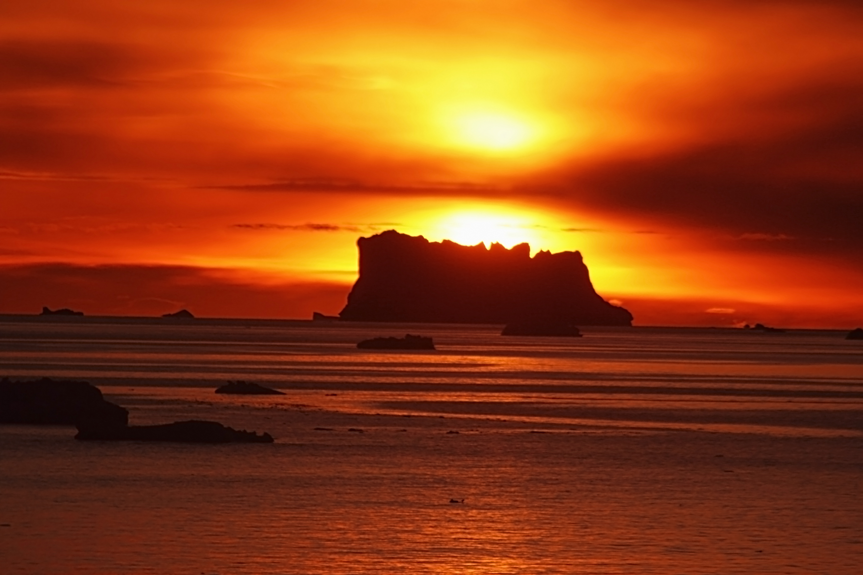 Sunset Icebergs at Baffin Bay.